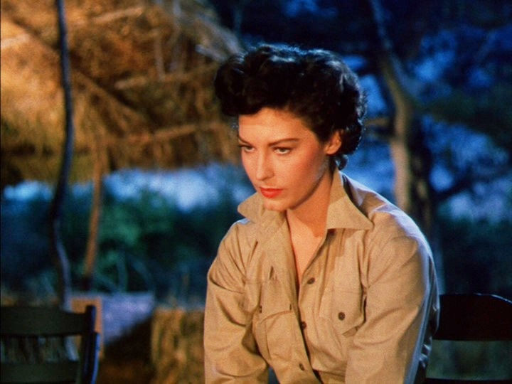 Screenshot of Ava Gardner from the film The Snows of Kilimanjaro